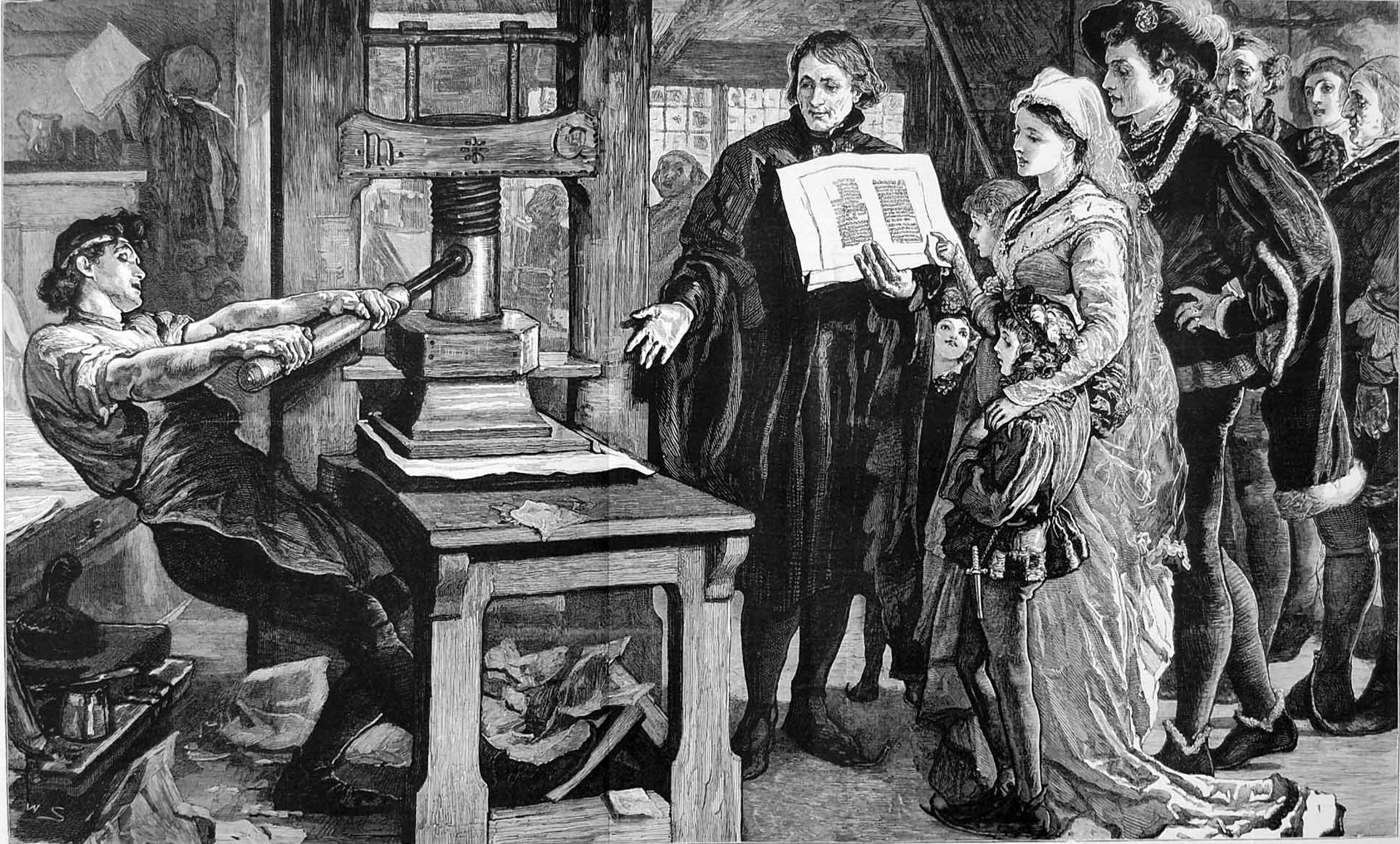 William Caxton showing specimens of his printing to King Edward IV and his Queen. Published in The Graphic in 1877 refering to The Caxton Celebration. The Caxton Celebration, commemorating the 400th anniversary of the first printed book in England, took place in London in the summer of 1877.